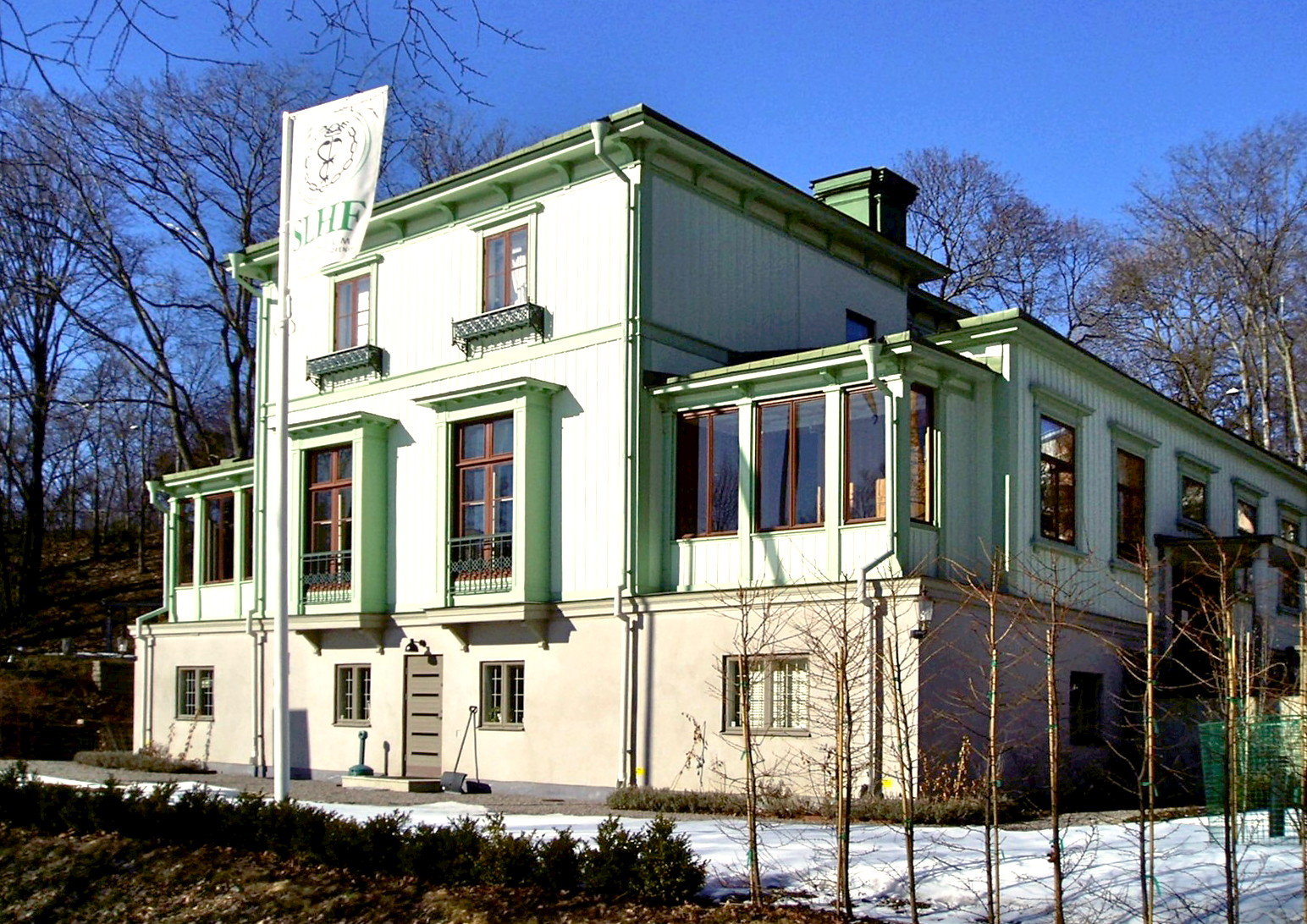 Villa Adolfsberg, house at Kungsholmen, Stockholm, Sweden